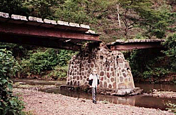 Image of bridge damaged by Contras in Nicaragua